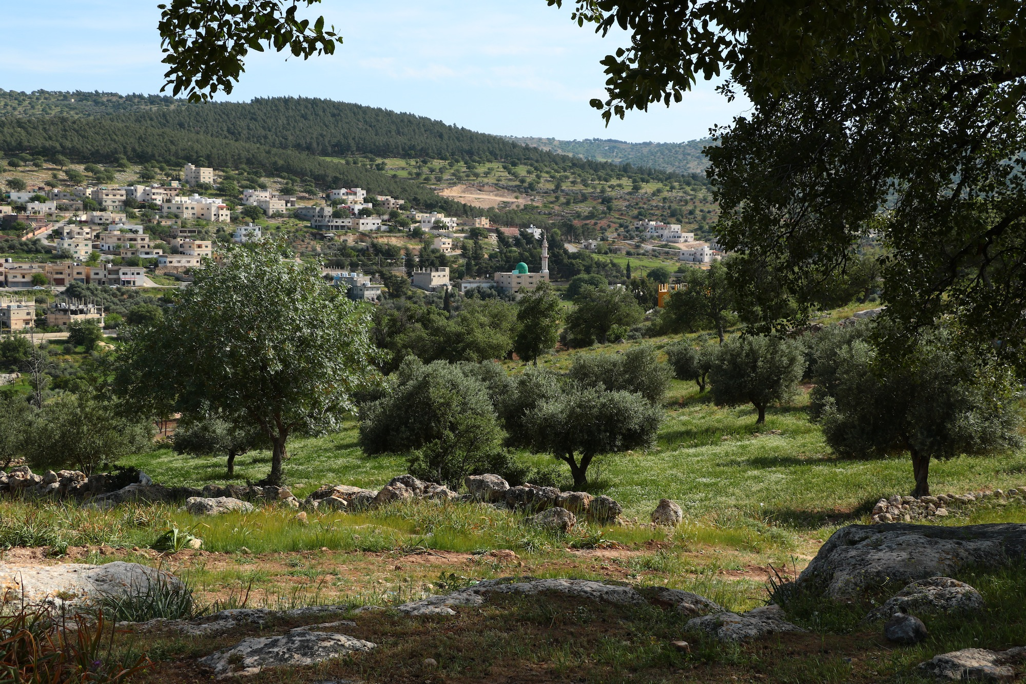 Bierain Sub-District, Jordan